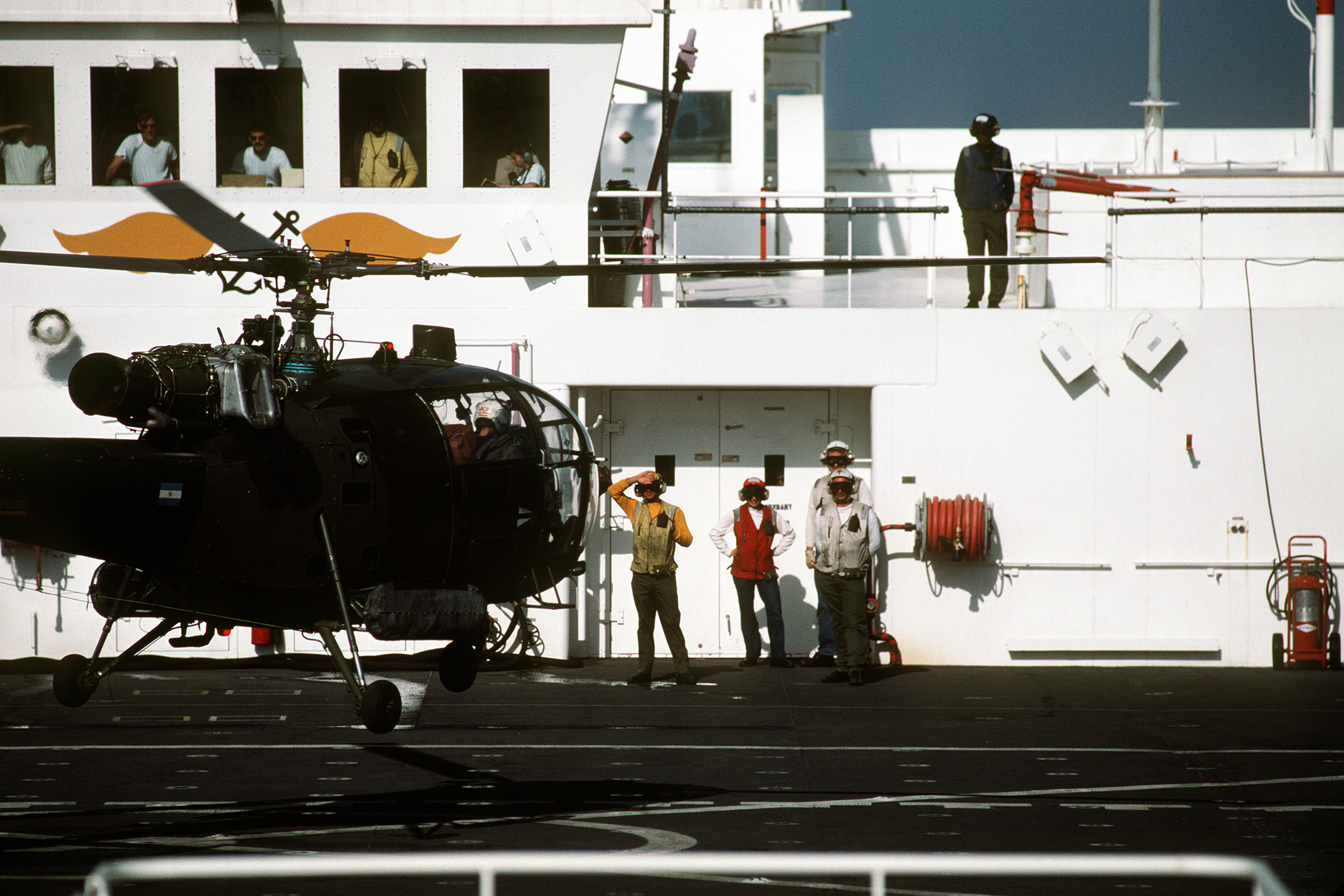 An Alouette III helicopter of the Argentine navy lands aboard the hospital ship USNS COMFORT (T-AH-20) during Operation Desert Storm.